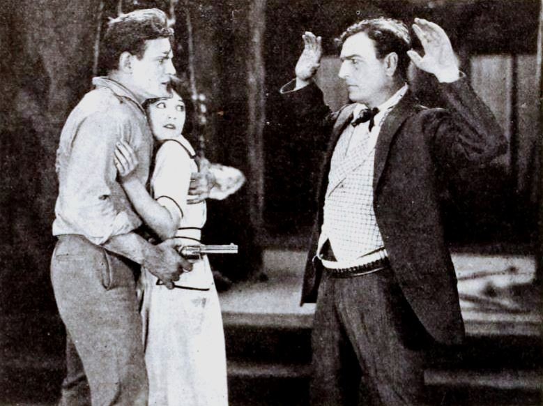 Still from the American western film To a Finish (1921) with Buck Jones, Helen Ferguson, and an unidentified actor, on page 60 of the September 10, 1921 Exhibitors Herald.